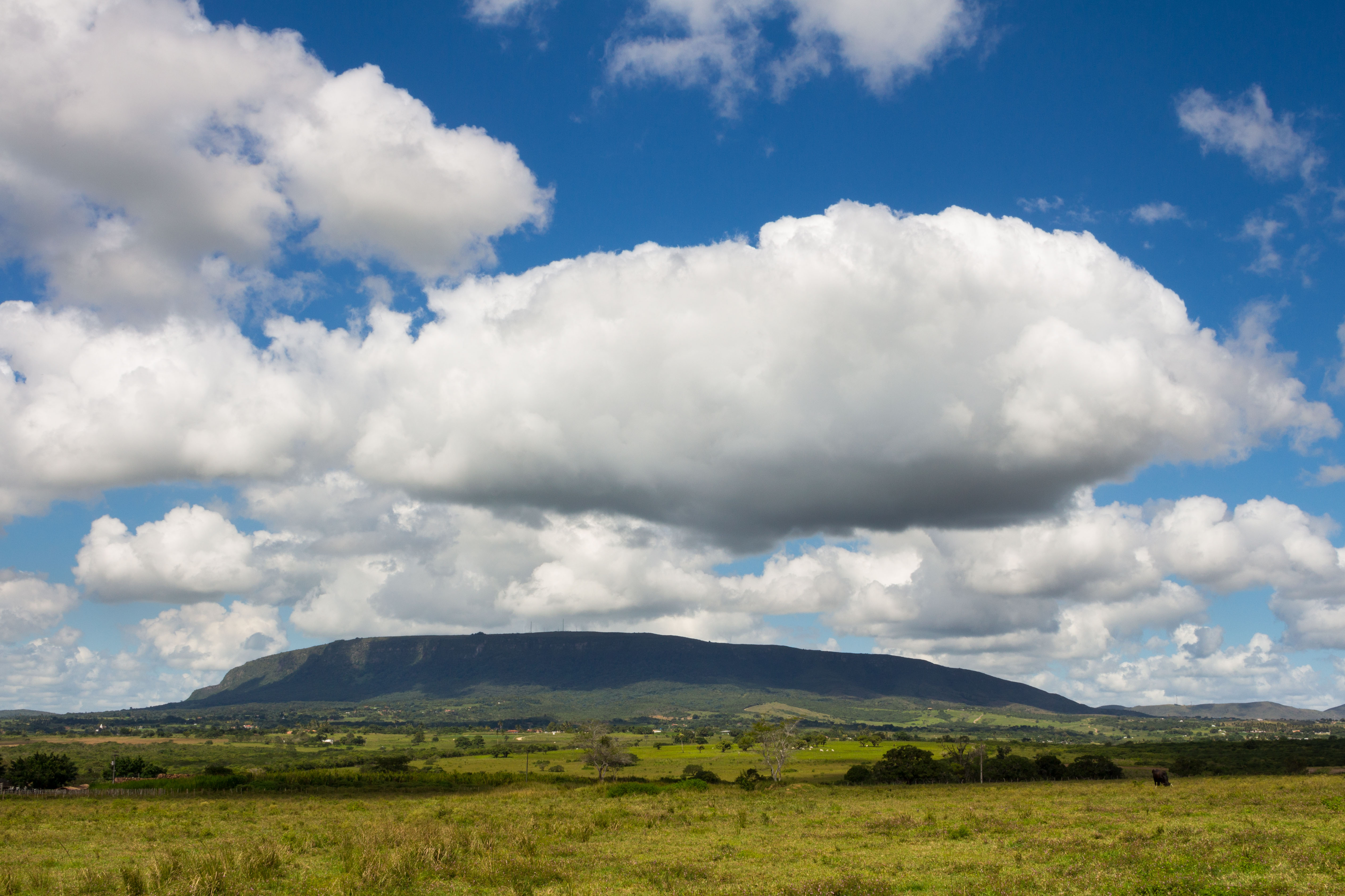 Panoramic view of the Serra de Itabaiana, Sergipe, Brazil.